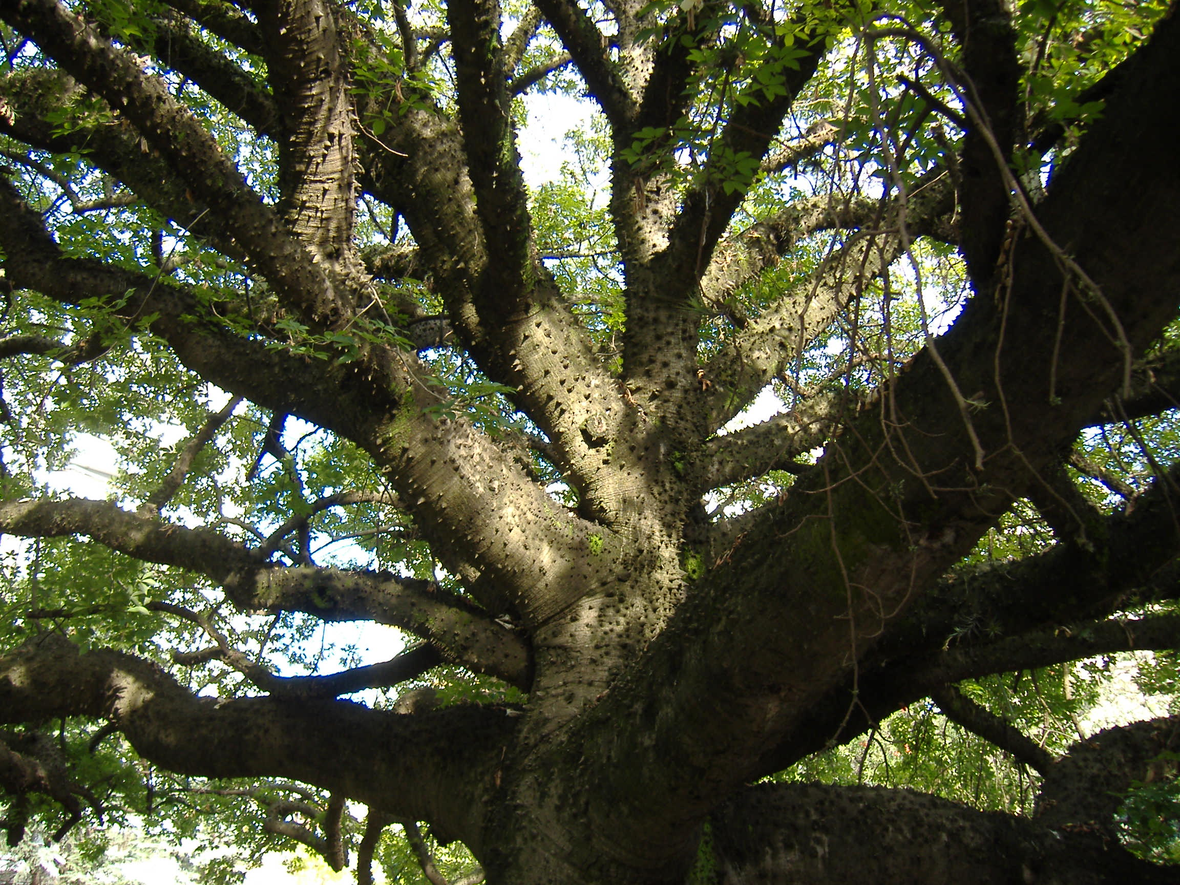 A closeup of the thorny branches of a large individual of floss silk tree (Ceiba sp.). This picture was taken by me, Pablo D. Flores, in Rosario, Argentina, on 1 March 2006. The tree is one of the many of the two species of Ceiba (C. speciosa, C. chodatii, locally known as palo borracho) planted along Belgrano Avenue, near the Paraná River.